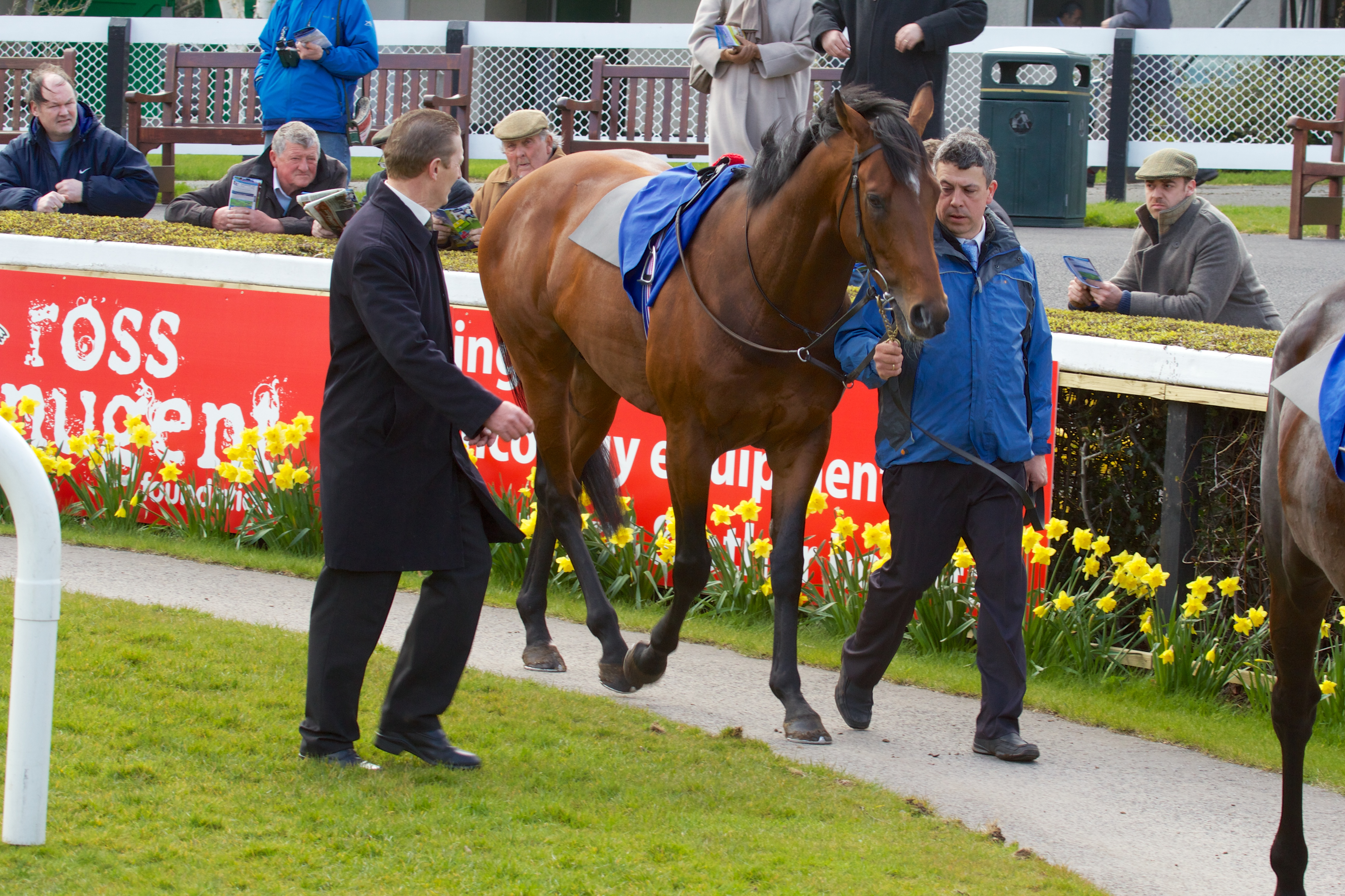 Declaration of War, looking plenty big enough in the paddock before his win in the Listed Heritage Stakes at Leopardstown in 2013.